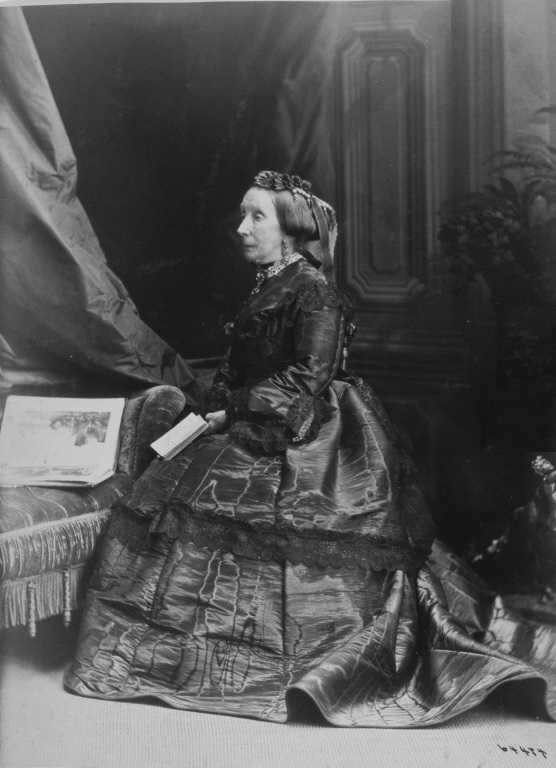 Photograph, Mrs Arabella (Holmes) Bellingham (1808-1887), Montreal, QC, 1871, William Notman (1826-1891), Silver salts on paper mounted on paper - Albumen process - 13.7 x 10 cm